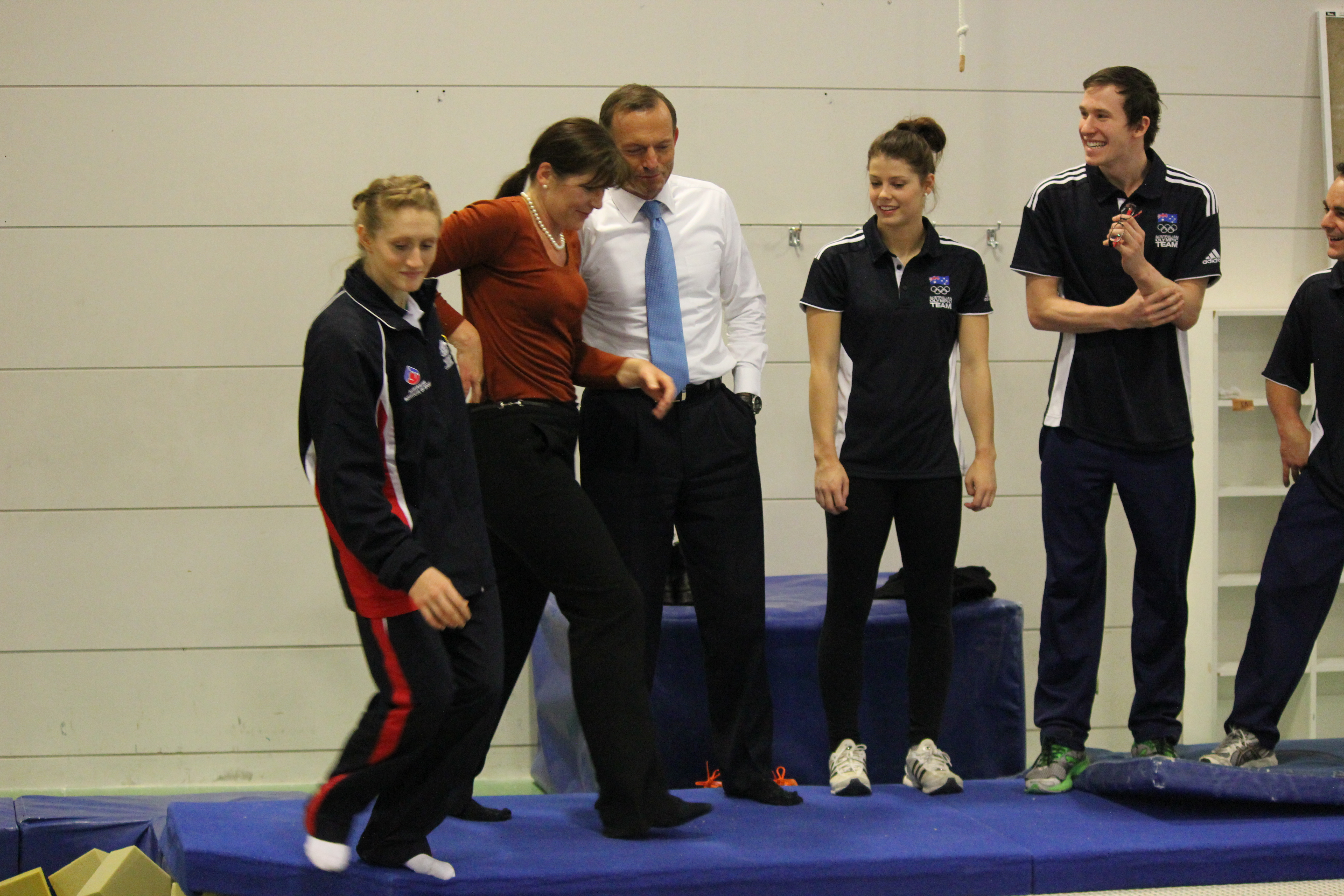 21 June 2012 at the Australian Institute of Sport Gymnastic Centre for the press event announcing the artistic gymnastics team for the London 2012 Summer Olympics attended by Tony Abbott and Kate Lundy. Far right, half in frame is Joshua Jeffris. Blake Gaudry is the tall male in frame that is not Tony Abbott.